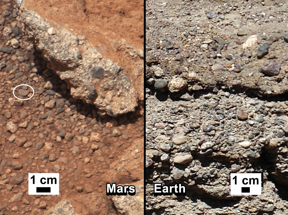 09.26.2012 Rock Outcrops on Mars and Earth This set of images compares the Link outcrop of rocks on Mars (left) with similar rocks seen on Earth (right). The image of Link, obtained by NASA's Curiosity rover, shows rounded gravel fragments, or clasts, up to a couple inches (few centimeters), within the rock outcrop. Erosion of the outcrop results in gravel clasts that fall onto the ground, creating the gravel pile at left. The outcrop characteristics are consistent with a sedimentary conglomerate, or a rock that was formed by the deposition of water and is composed of many smaller rounded rocks cemented together. A typical Earth example of sedimentary conglomerate formed of gravel fragments in a stream is shown on the right. An annotated version of the image highlights a piece of gravel that is about 0.4 inches (1 centimeter) across. It was selected as an example of coarse size and rounded shape. Rounded grains (of any size) occur by abrasion in sediment transport, by wind or water, when the grains bounce against each other. Gravel fragments are too large to be transported by wind. At this size, scientists know the rounding occurred in water transport in a stream. The name Link is derived from a significant rock formation in the Northwest Territories of Canada, where there is also a lake with the same name. Scientists enhanced the color in the Mars image to show the scene as it would appear under the lighting conditions we have on Earth, which helps in analyzing the terrain. The Link outcrop was imaged with the 100-millimeter Mast Camera on Sept. 2, 2012, which was the 27th sol, or Martian day of operations.